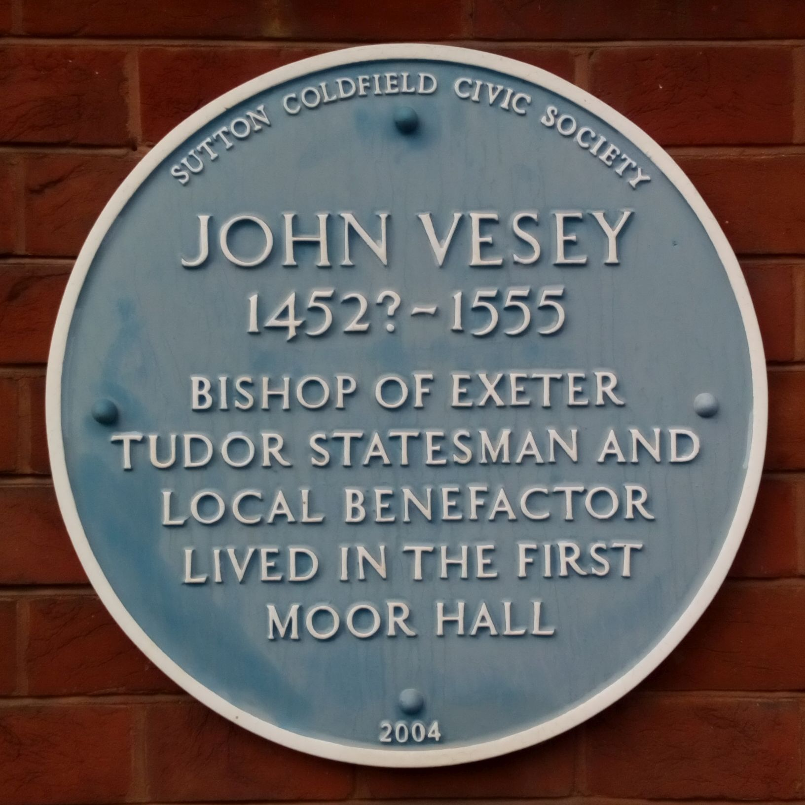 temp temp temp